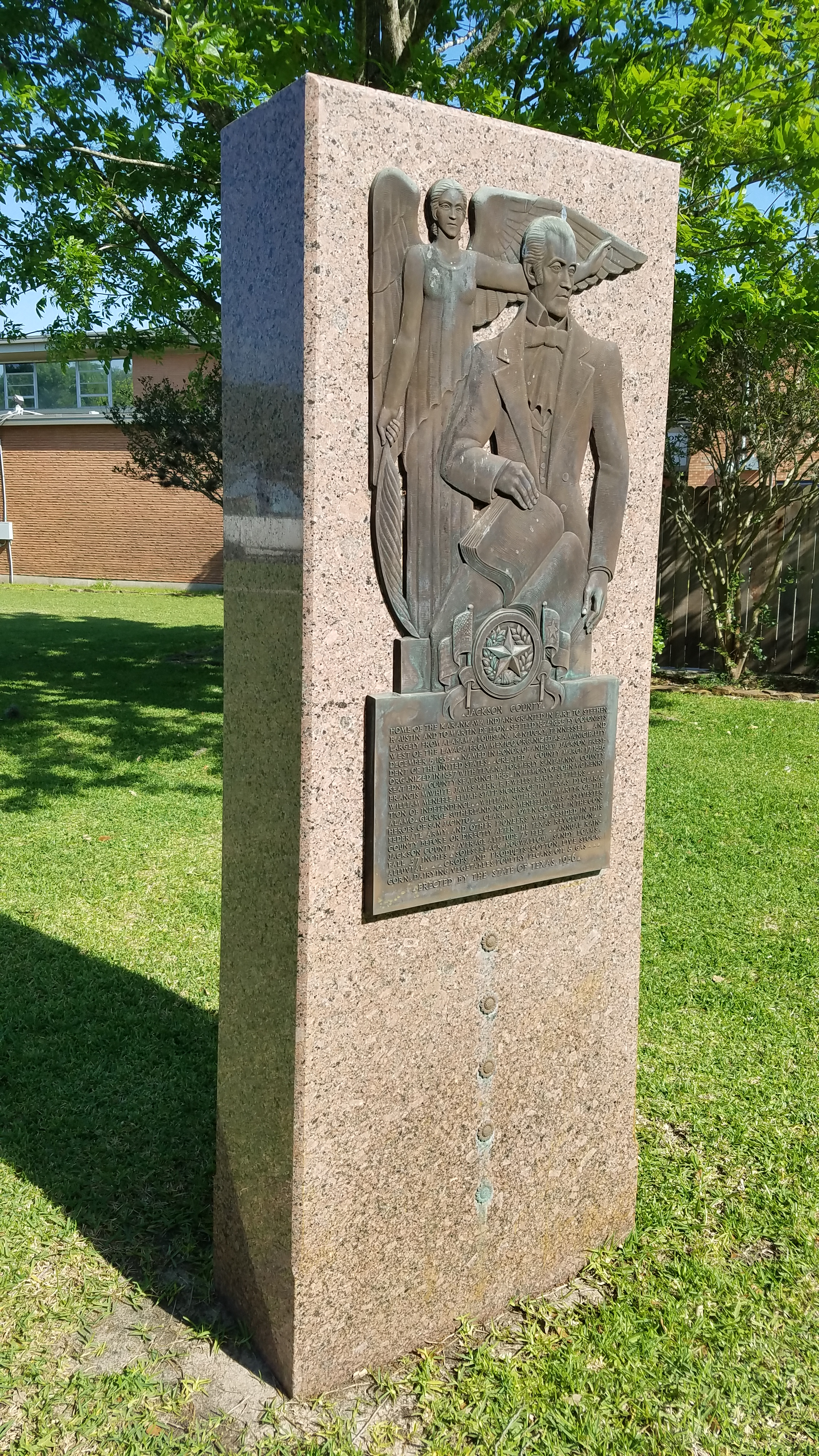 The Jackson County Monument on the grounds of the Jackson County Courthouse in Edna, Texas. Created by sculptor Raoul Josset and architects Page and Southerland for the 1936 Texas Centennial, it was listed on the National Register of Historic Places on April 19, 2018.